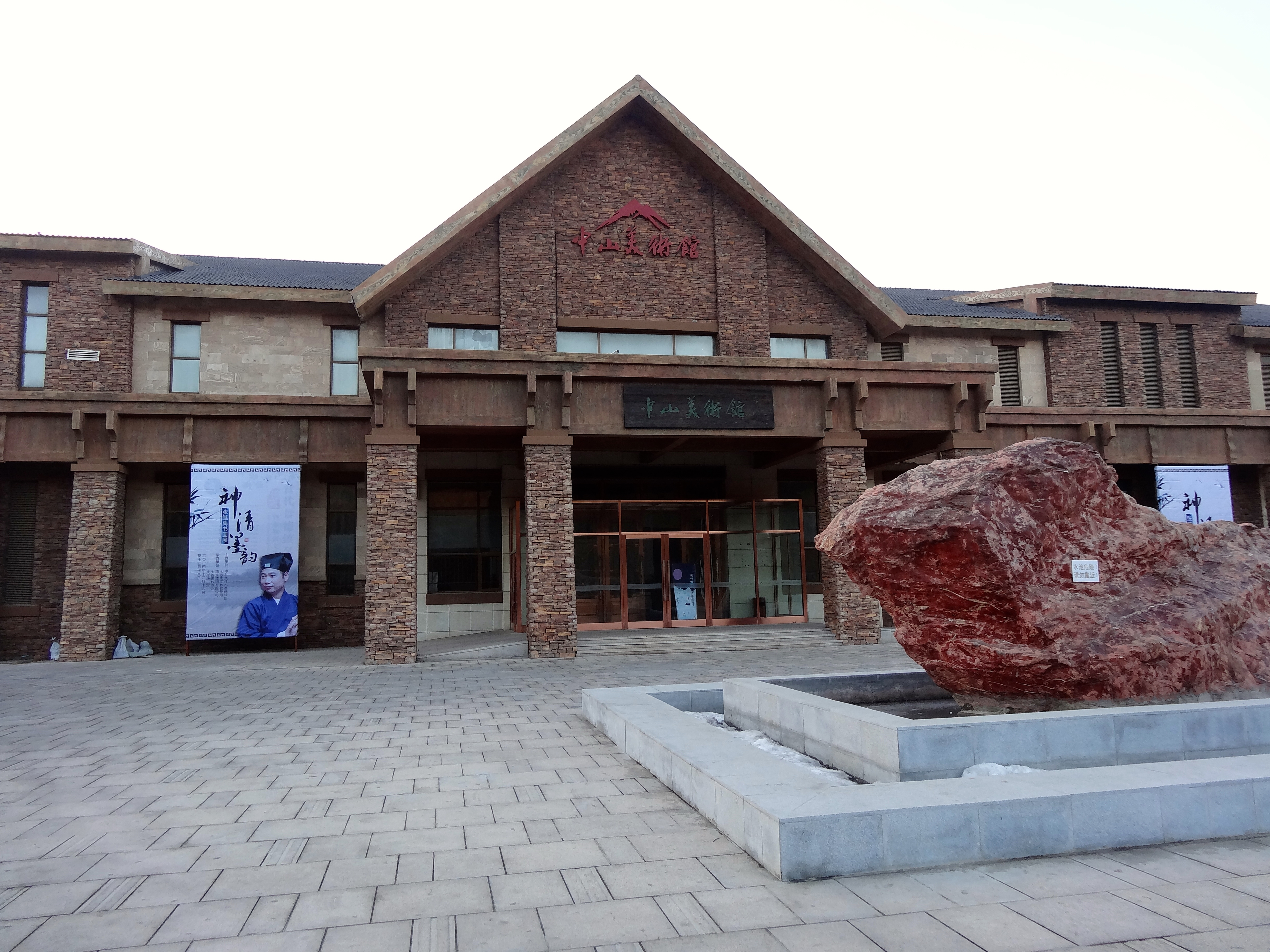 Zhongshan Art Museum in Dalian, China